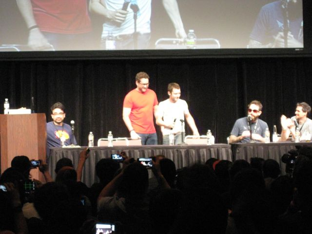 The Rooster Teeth panel at RTX 2012. From left to right, on stage is Gus Sorola, Burnie Burns, Elijah Wood, Geoff Ramsey, and Joel Heyman.